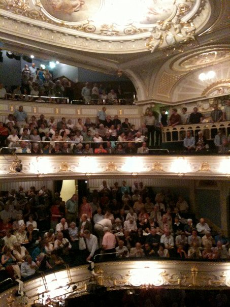 Upper tiers in the Buxton Opera House, 2008